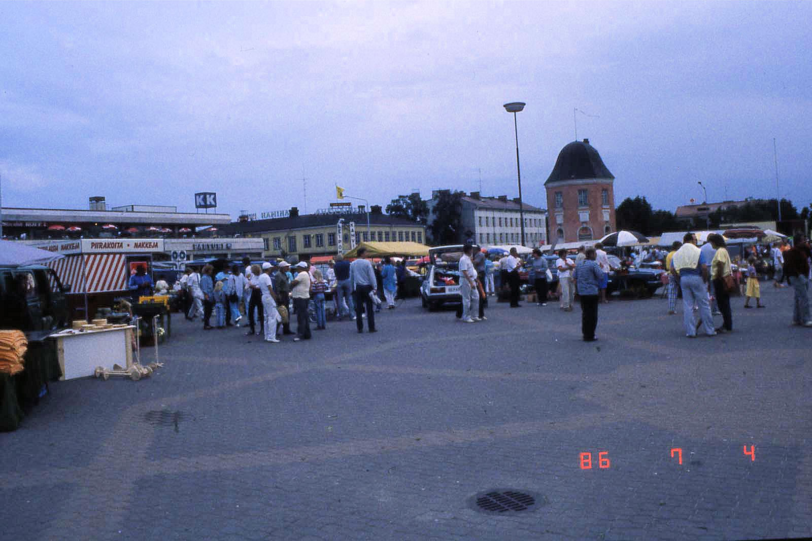 Market place of Hamina, Finland, in 1986